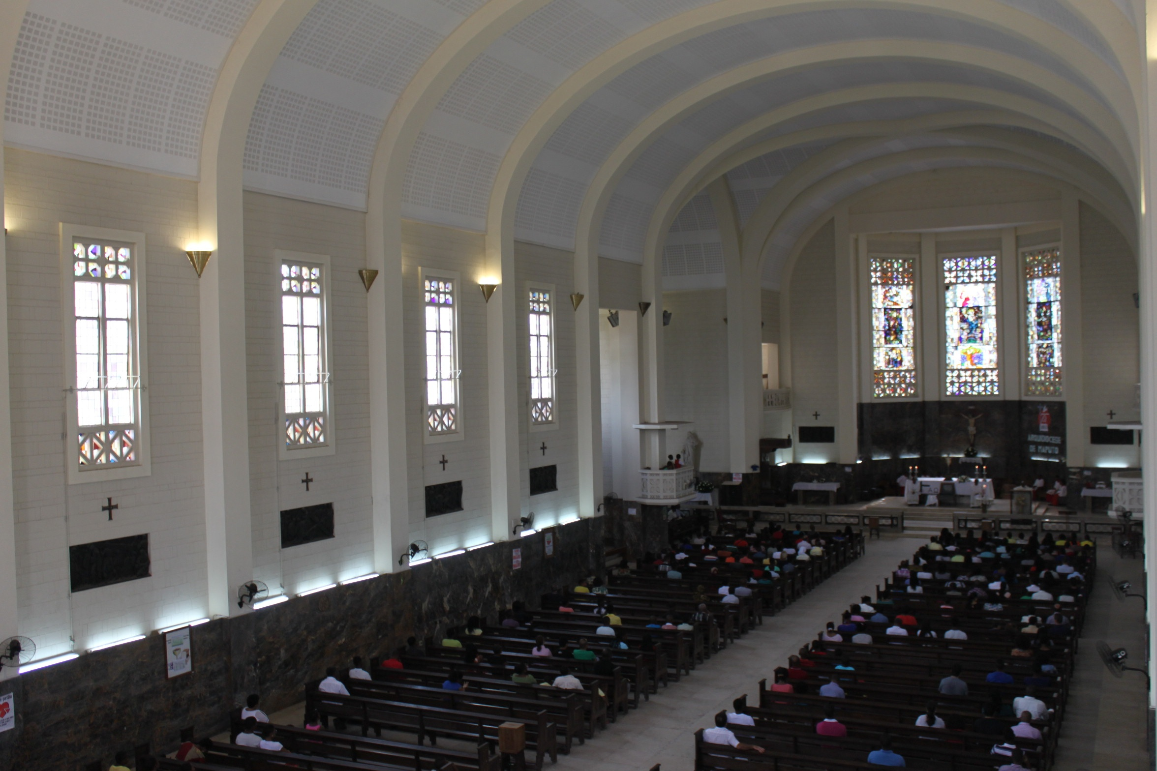 Interior of the Cathedral of Maputo, Mozambique